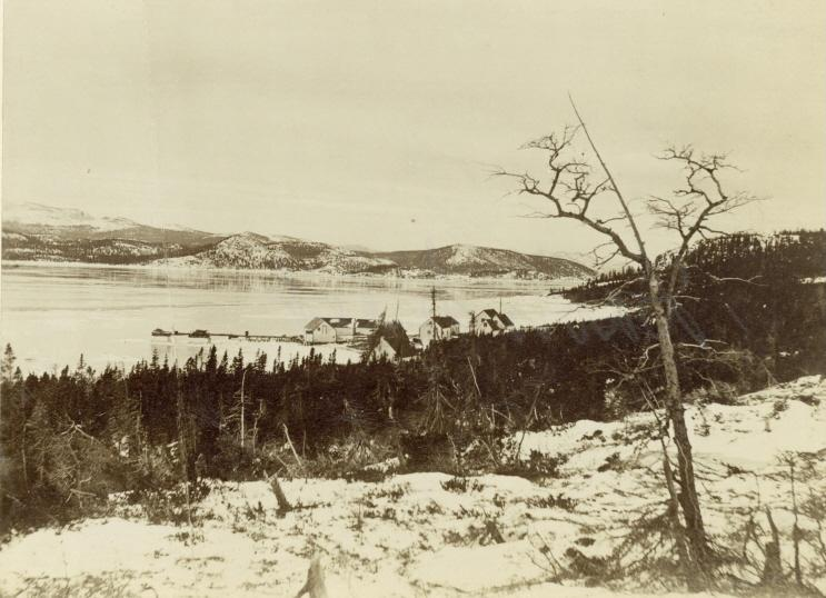 Photograph, Davis Inlet, Labrador, NL, about 1890, Silver salts on paper mounted on card - Albumen process - 12.3 x 17 cm